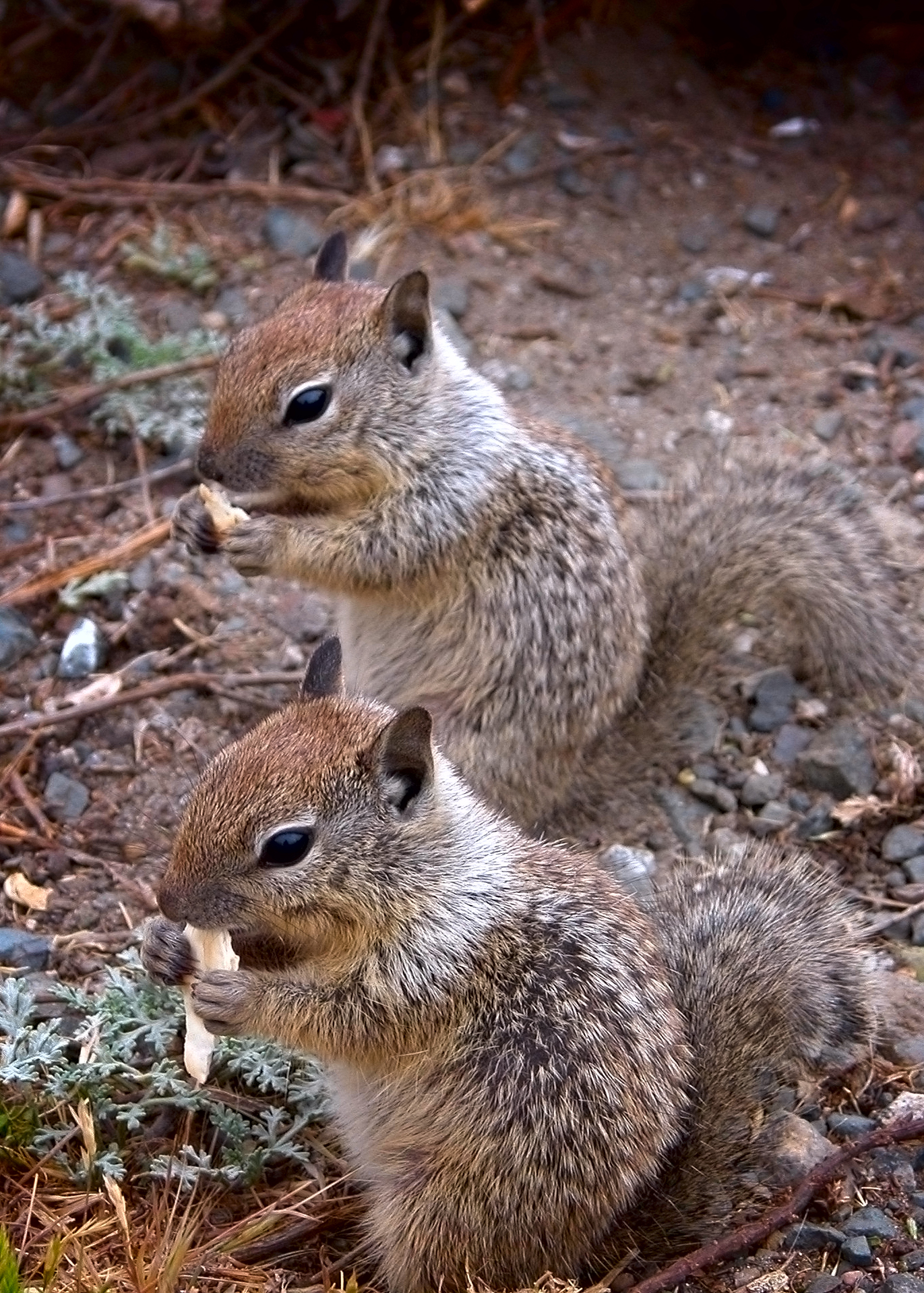 Two Otospermophilus beecheyi (California ground squirrels) eating.